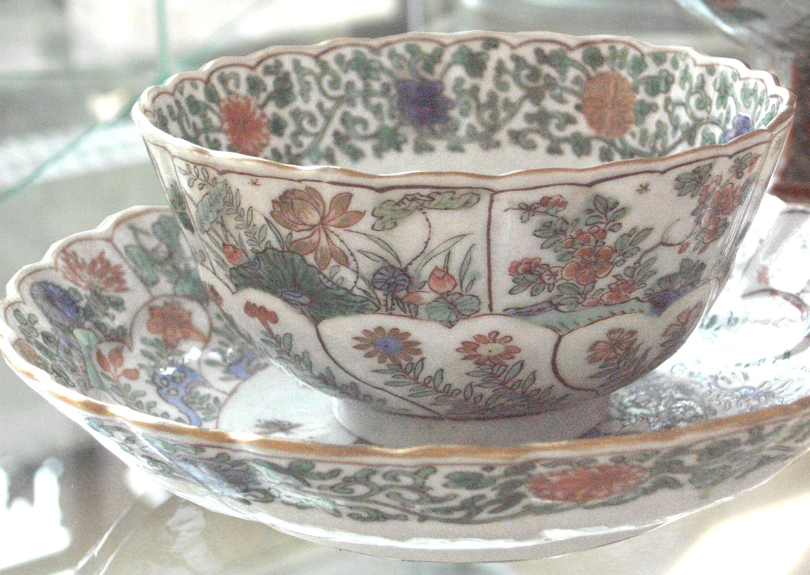 Cup in famille-verte-Style, Qing Dynasty, Porzellansammlung im Dresdner Zwinger, Datum: 25.07.06